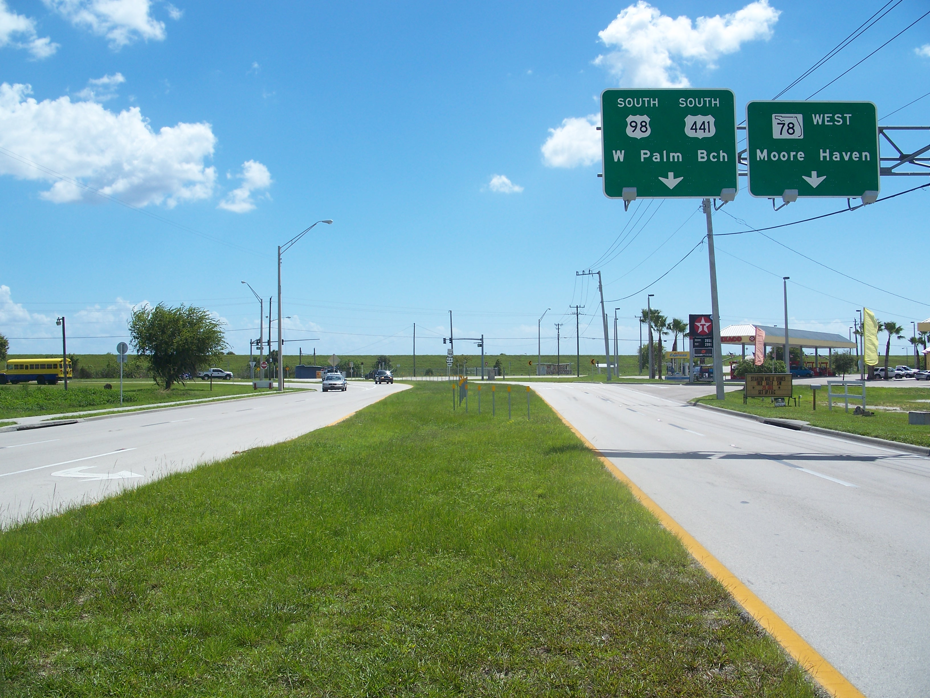 Okeechobee, Florida: US 441/US 98: Looking south towards the split with SR 78 as they loop around Lake Okeechobee. US 441/98 goes left (east) and SR 78 goes right (west)